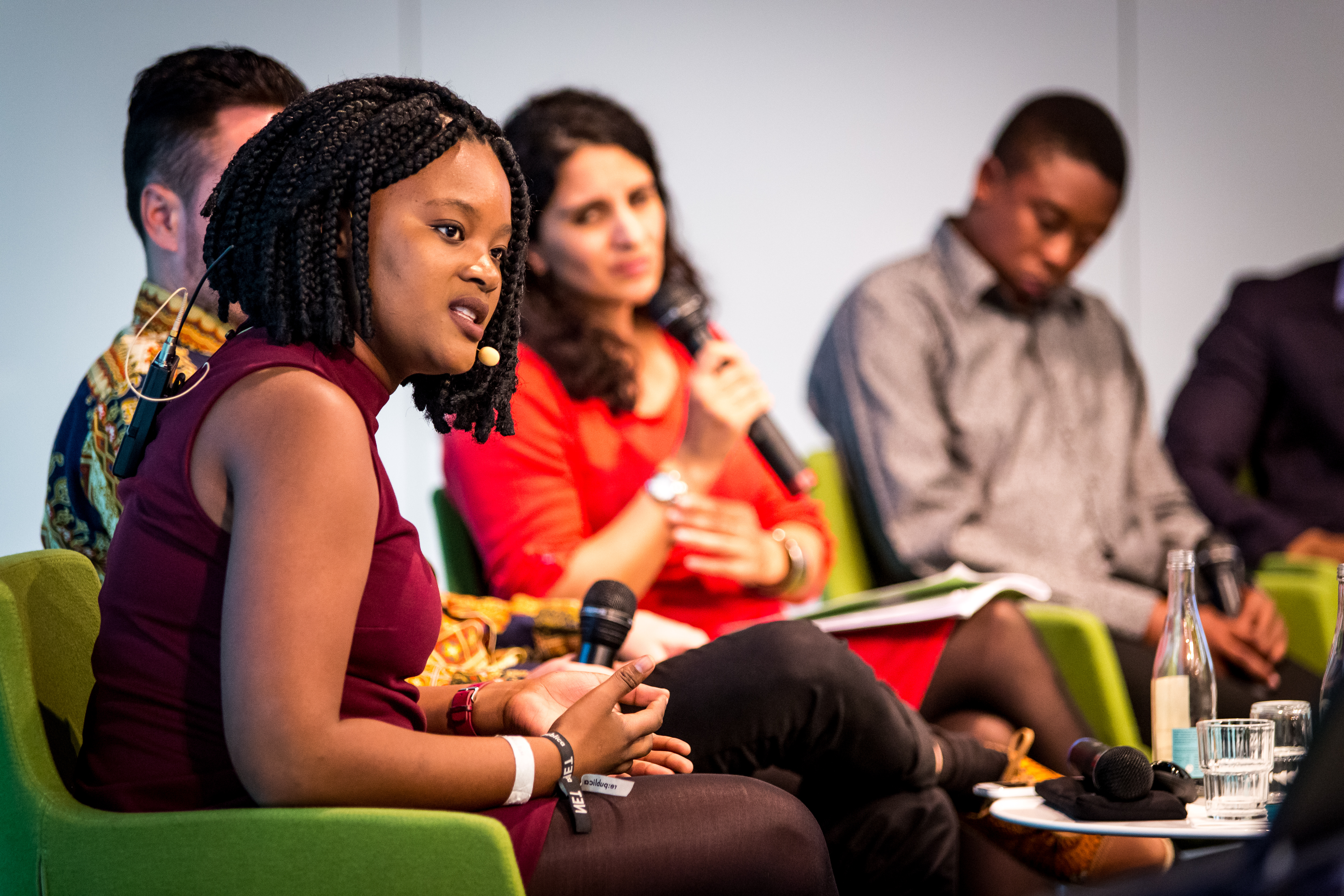 En mai 2016 Siyanda Mohutsiwa (Botsuana), Samuel Farai Monro aka Comrade Fatso (Zambezi News, Simbabwe), Layla Al-Zubaidi (Heinrich-Böll-Stiftung, Südafrika), Michael Kudakwashe (Zambezi News, Simbabwe),Foto: Jörg Farys